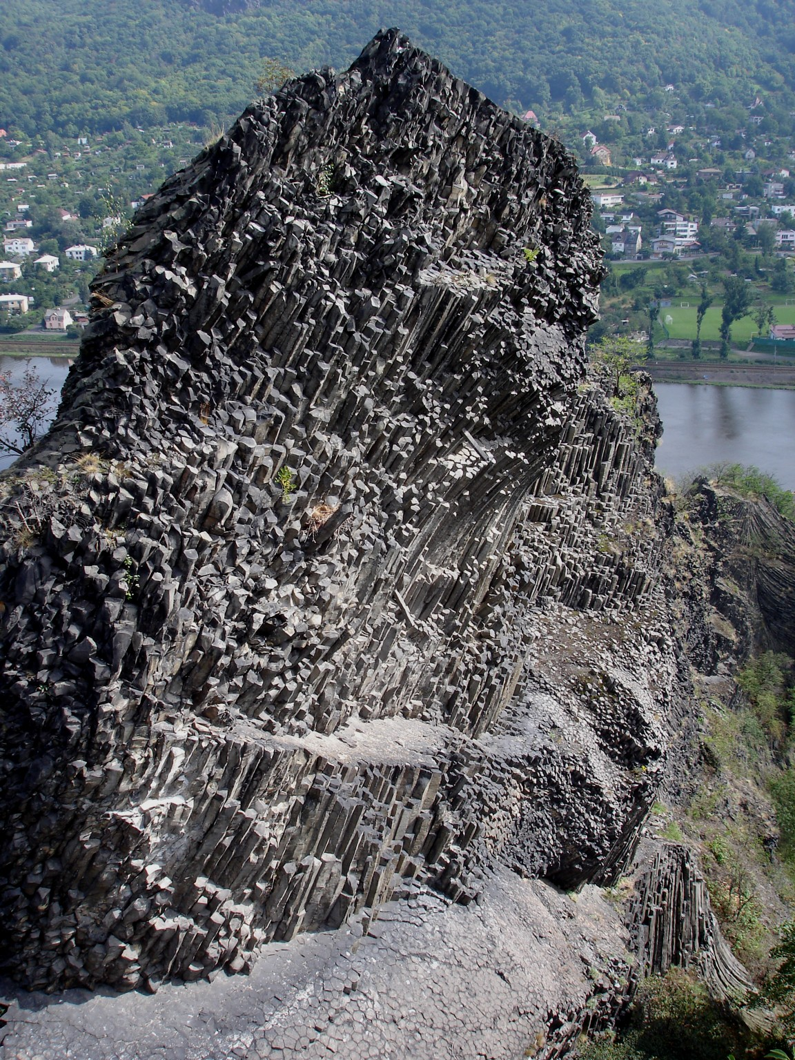 Národní přírodní památka Vrkoč, Ústí nad Labem